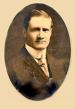 Date: 1909 Photographer: Park Bros Reference code: P443